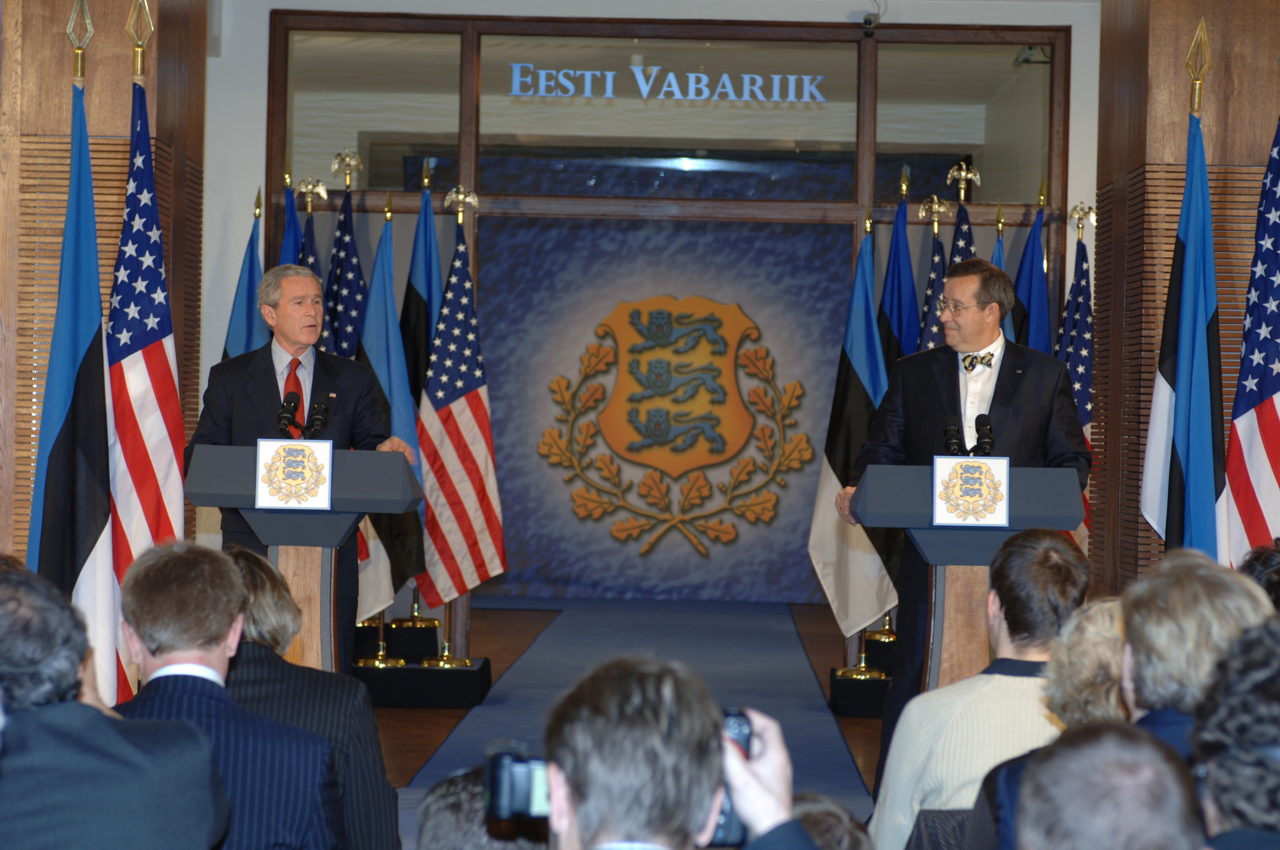 American and Estonian Presidents George W. Bush and Toomas Hendrik Ilves hold a press conference at the Estonian Bank in Tallinn. November 2006